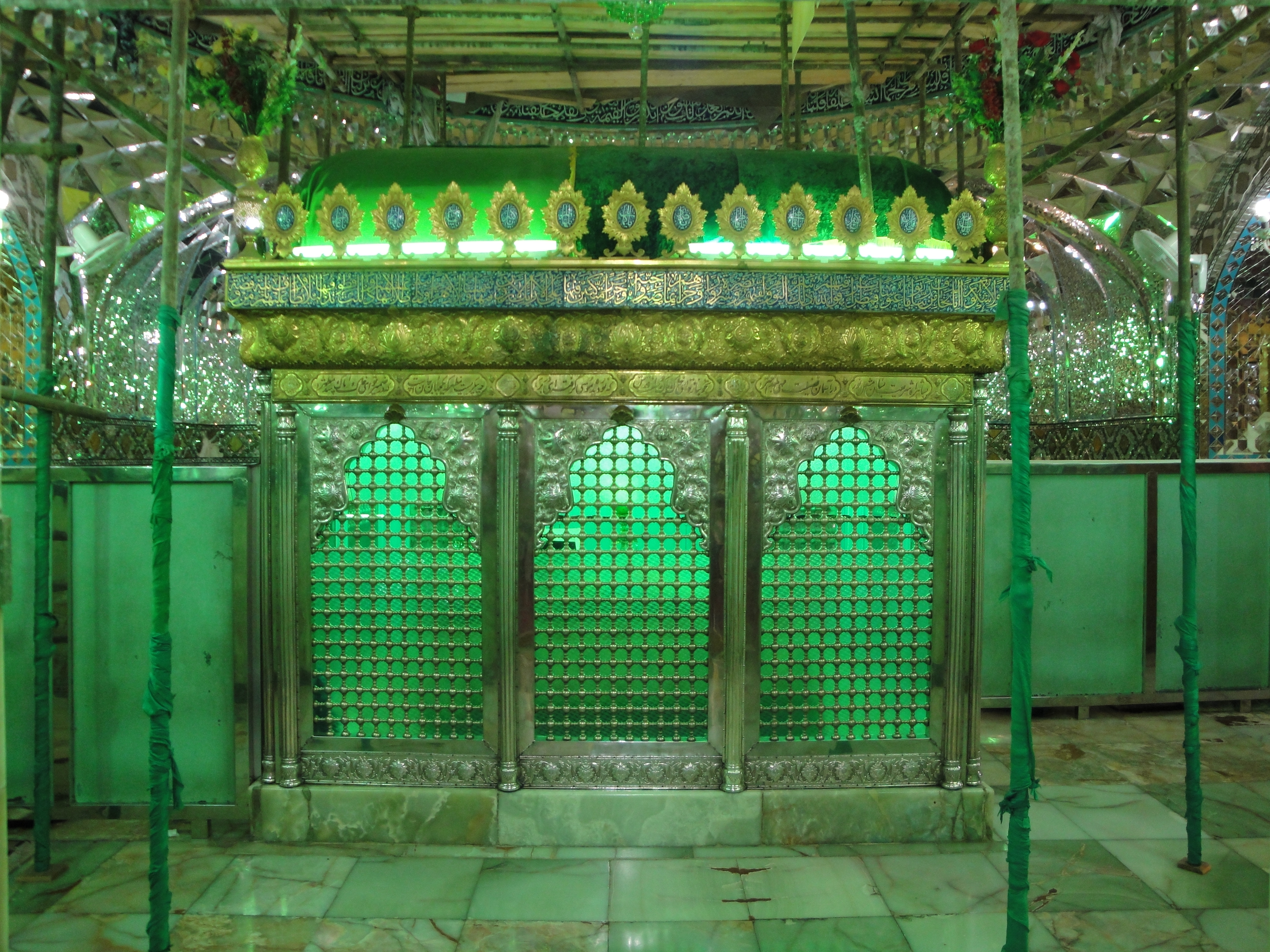 Jalaleddin Ashraf shrine in Astane Ashrafie